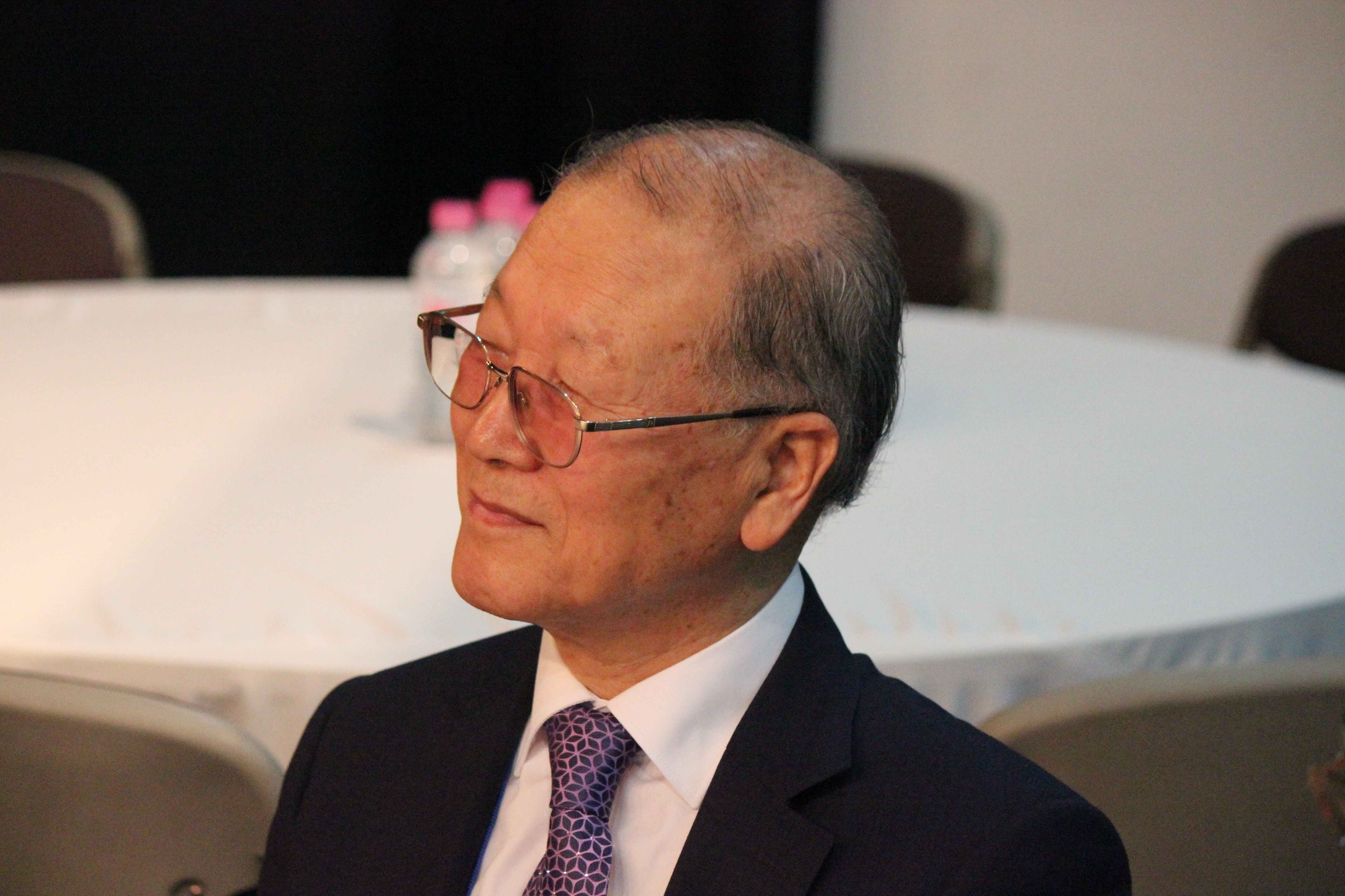 YungJae Kim prof(Korea Reformed Theological Society, Onrulee Church, Seoul)